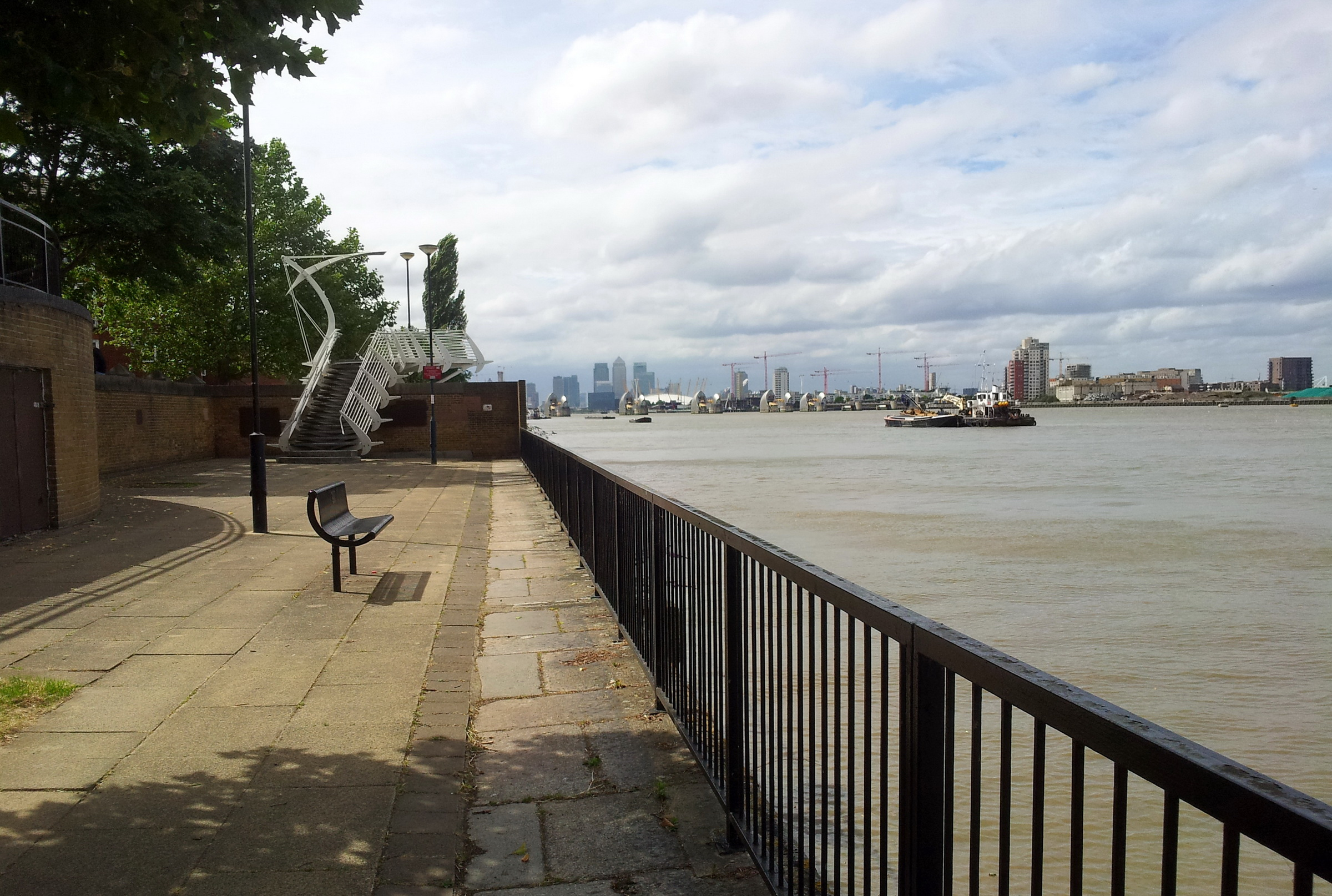 The Thames Path with view of Canary Wharf at Woolwich Dockyard, Woolwich, South East London.